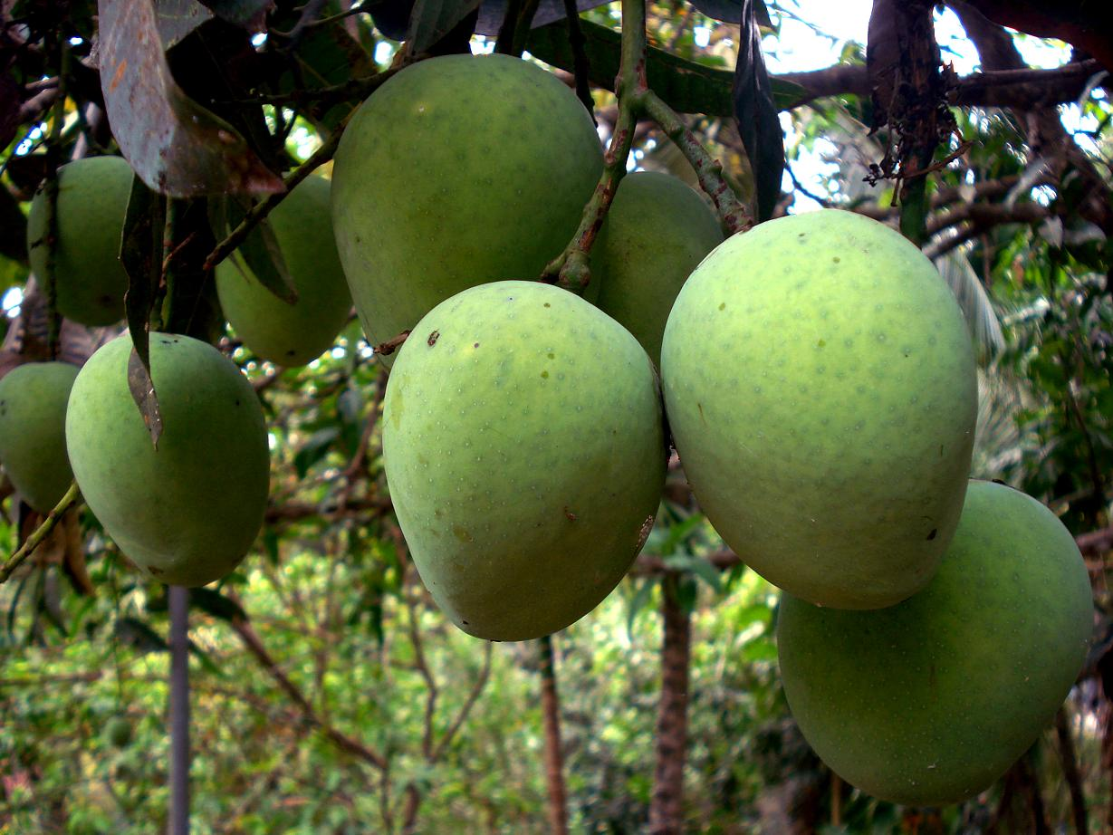 Kuttiyaattur Mango Big Mangoes in the tree.